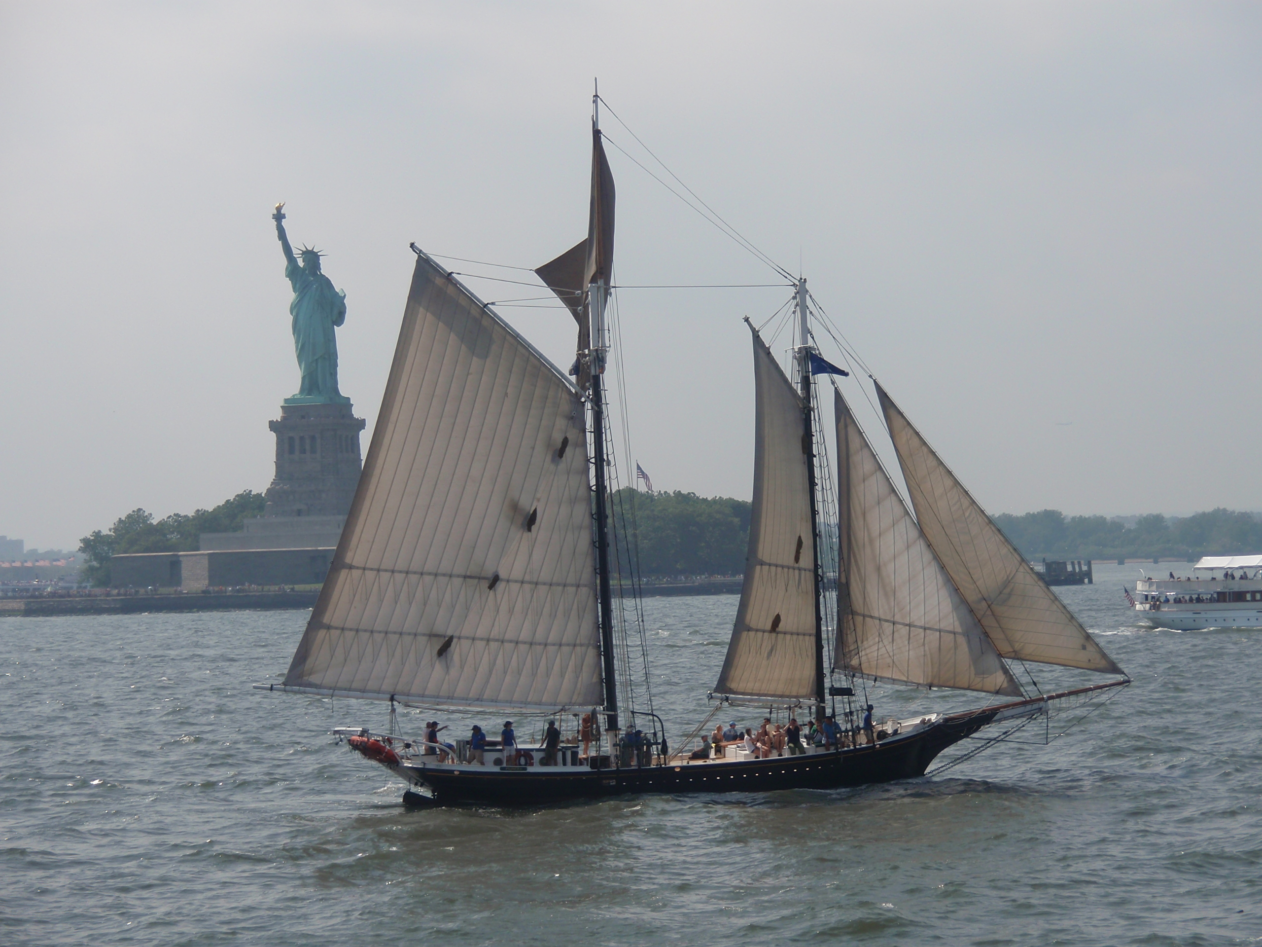 The Statue of Liberty from the ferry to Staten Island